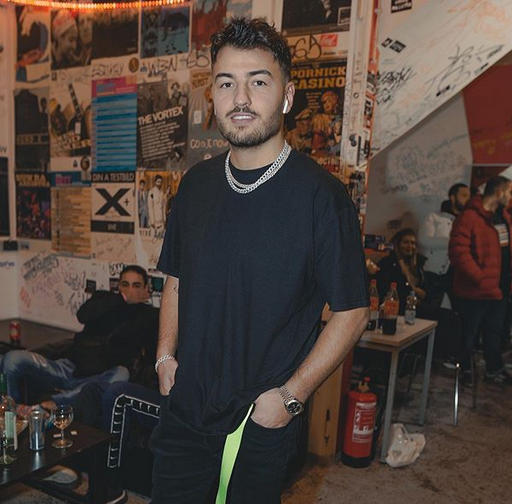 Ardian Bujupi, 2019